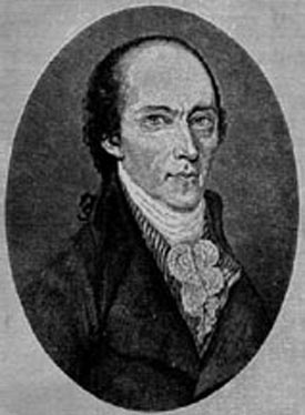 Found this on the website URL ( It is a picture of Pennsylvania Senator William Maclay for use this that article. I believe that this is a government photo. Although, if it is not then it would fall under "Author died more than 100 years ago."